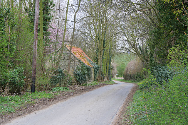 Country Road at Haceby, Lincolnshire A small stone and pantile barn on the lane leading out of Haceby towards the A52.